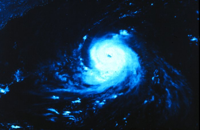 Hurricane Ella on September 1, en:1978